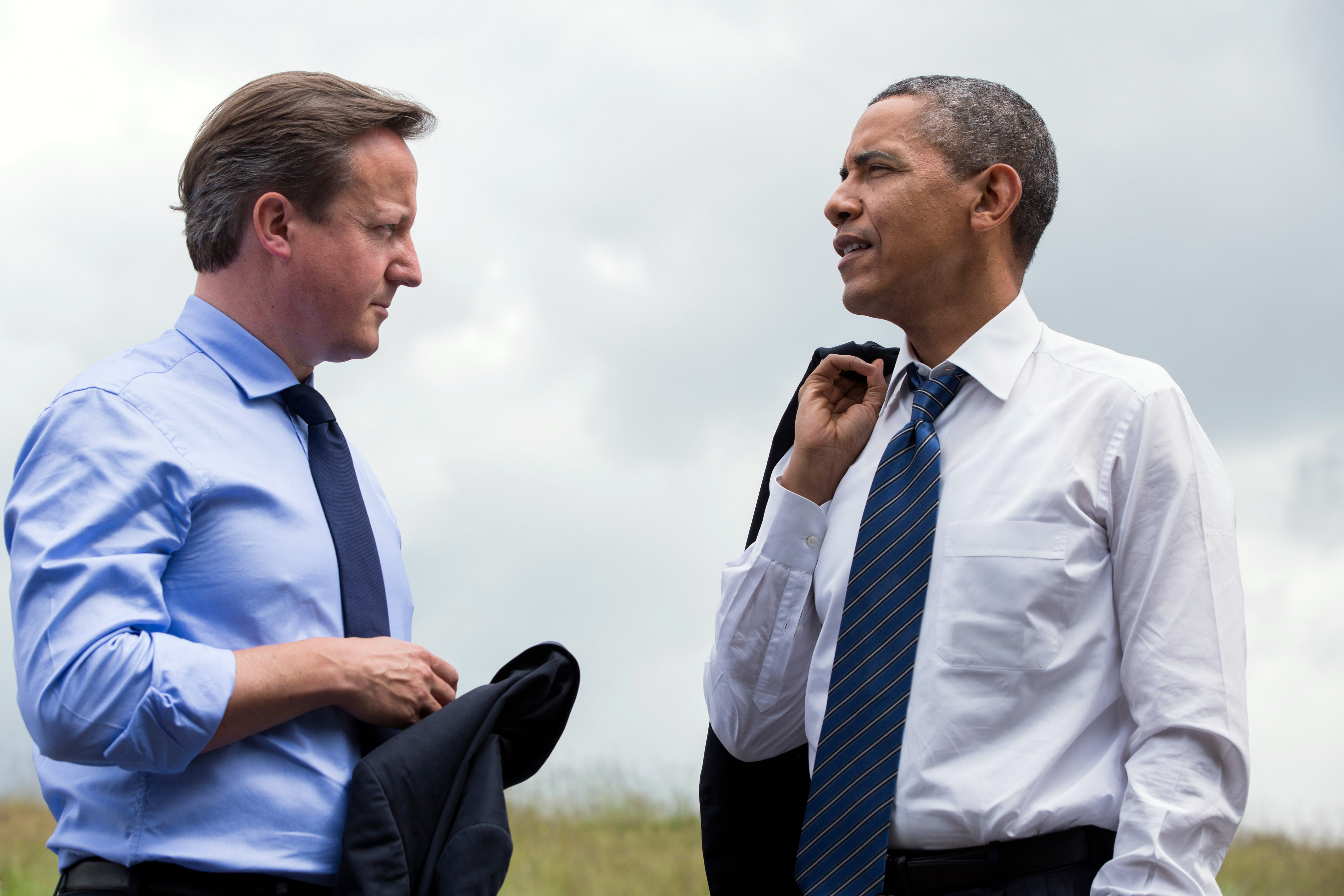 British Prime Minister David Cameron and President Barack Obama of the United States talk at the G8 Summit in Lough Erne, Northern Ireland on 17 June 2013.